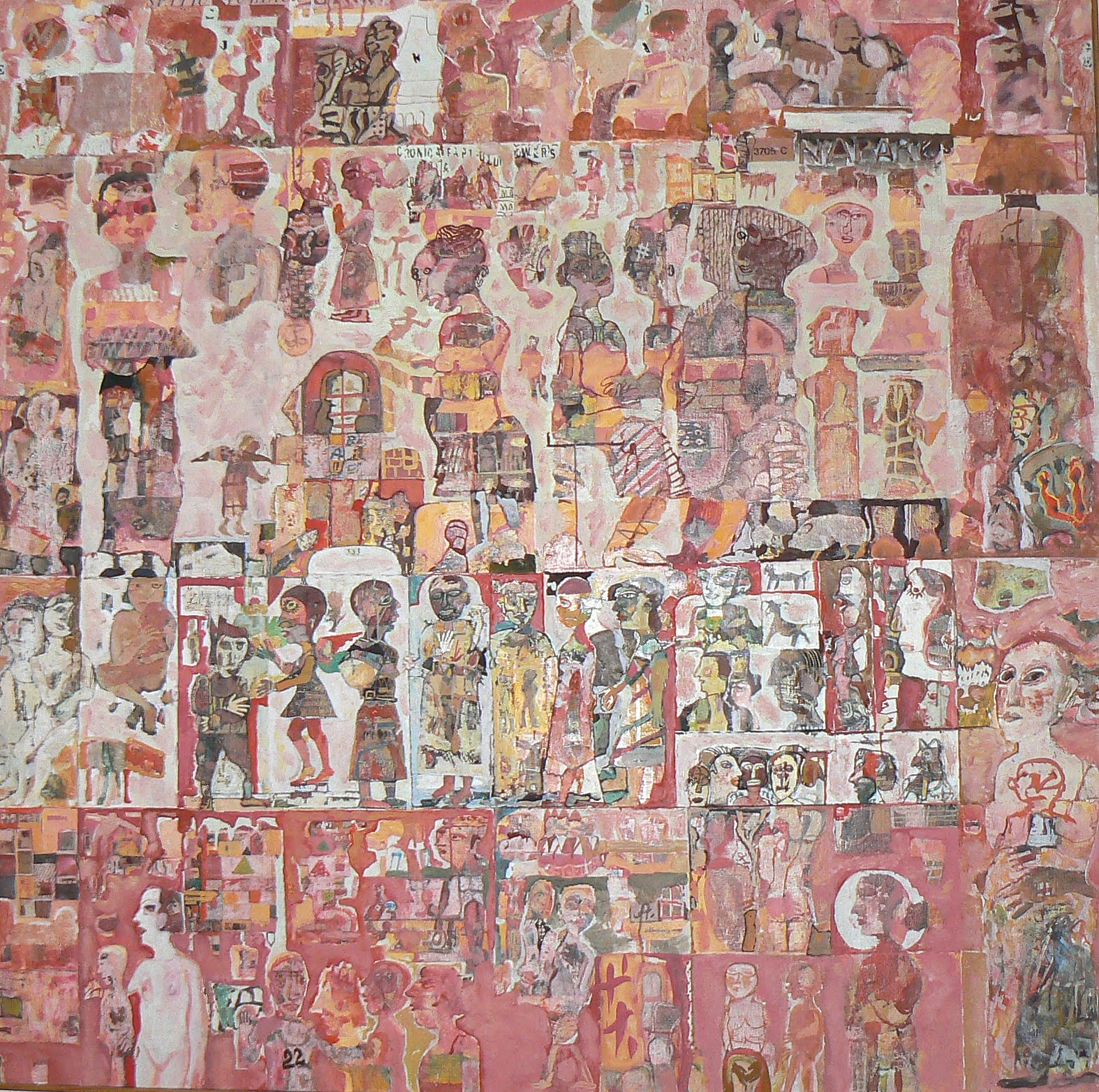 Georgeta Naparus - Public Square. Oil on canvas. 1990's.